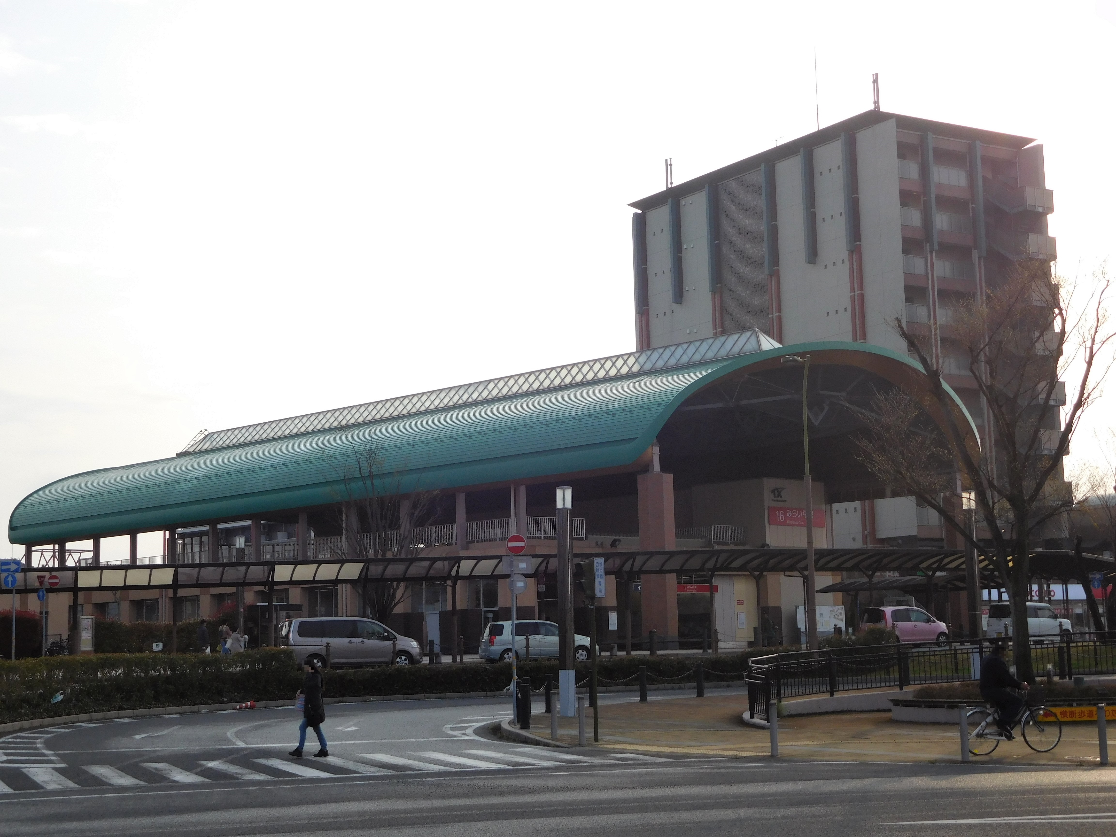 This is the Tsukuba Express Miraidaira station in Tsukubamirai, Ibaraki, Japan. The building on the right side is STATION TOWER TOYOSHIMA, which was built in 2007.